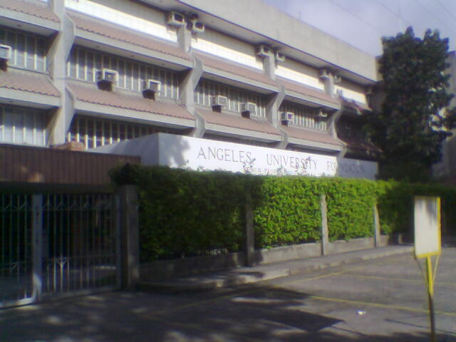 The front of AUF school, taken by mobile phone.